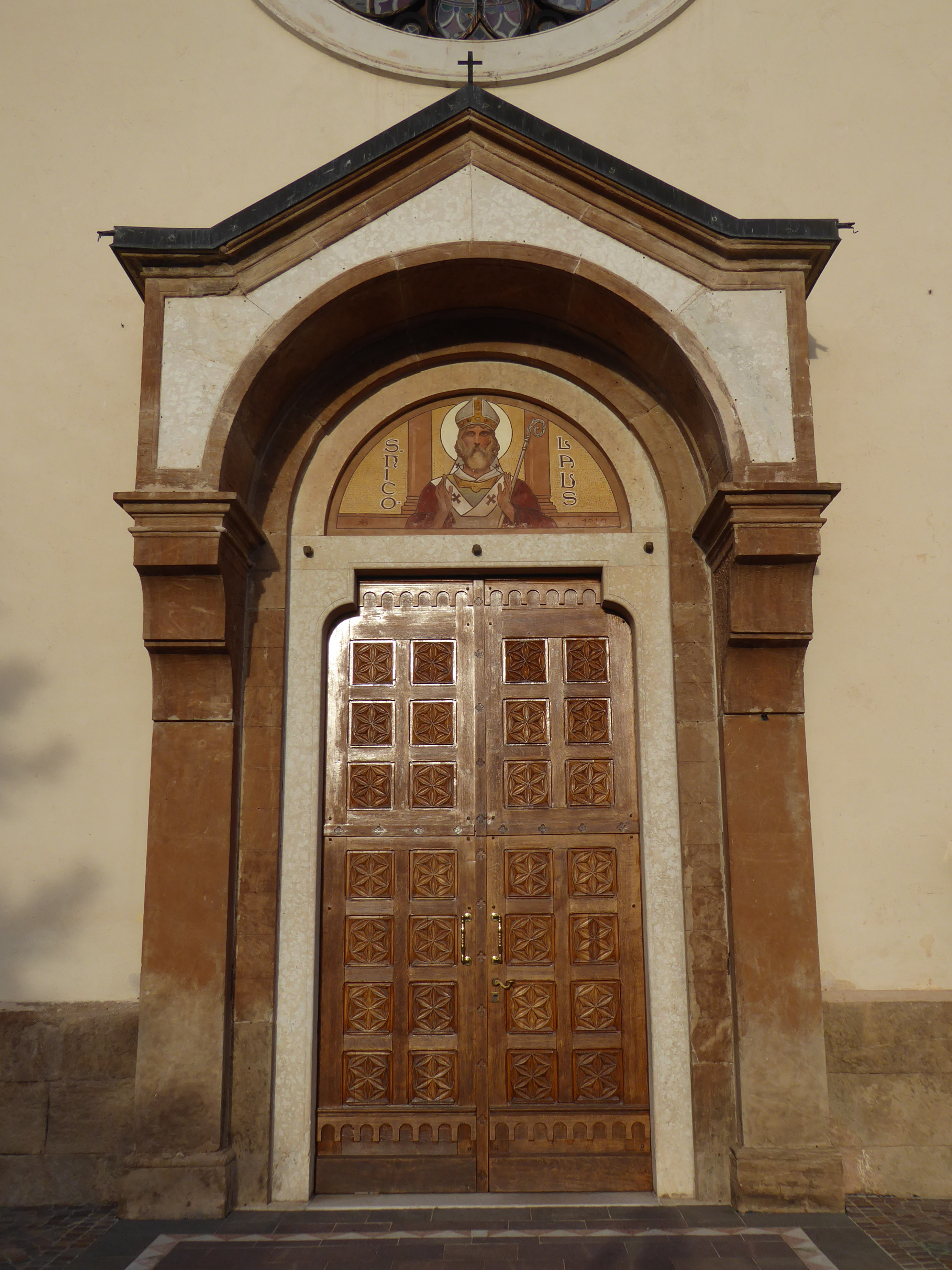 Saint Nicholas church in Ville (Giovo, Trentino, Italy) - Door